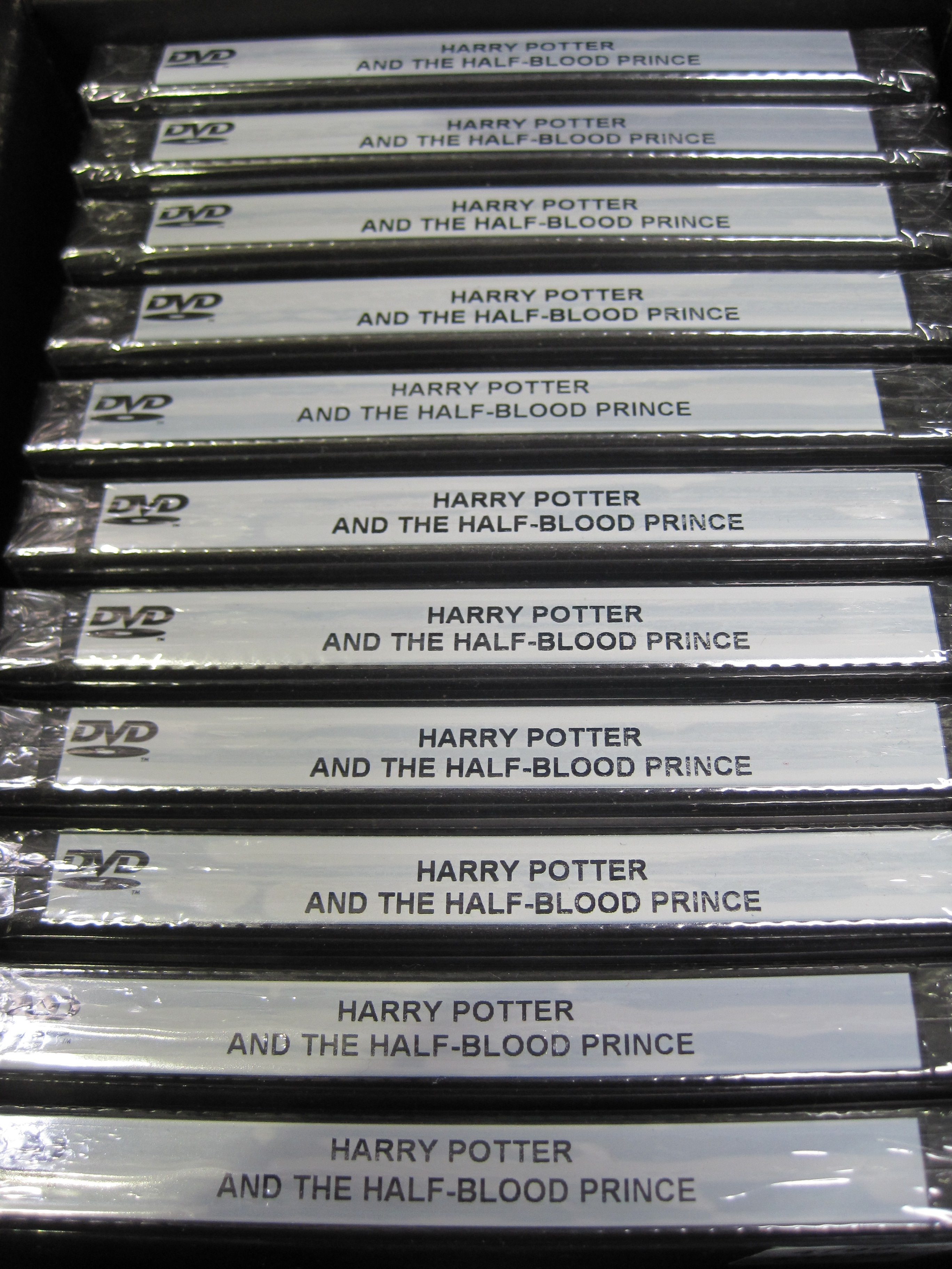 DVDs of Harry Potter and the Half-Blood Prince at Costco in South San Francisco, California on El Camino Real.